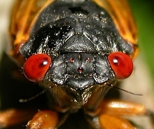 Imagines of Magicicada septendecim, 17-year-periodical cicada, 17-Jahr-Zikade, Danville, Illinois, USA, Ausschnitt